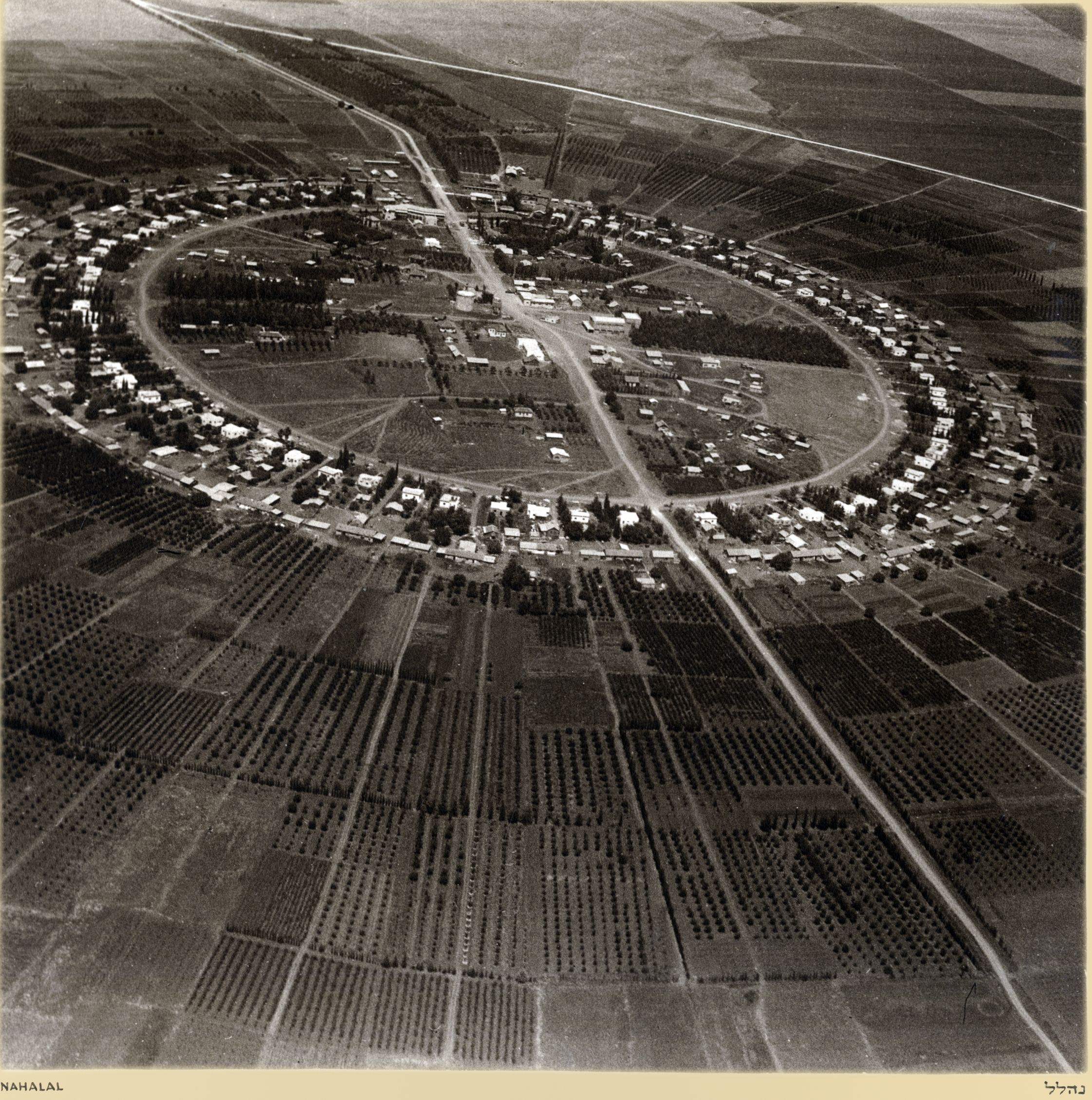 Z. Kluger. Erez Israel from the air - 1937-38